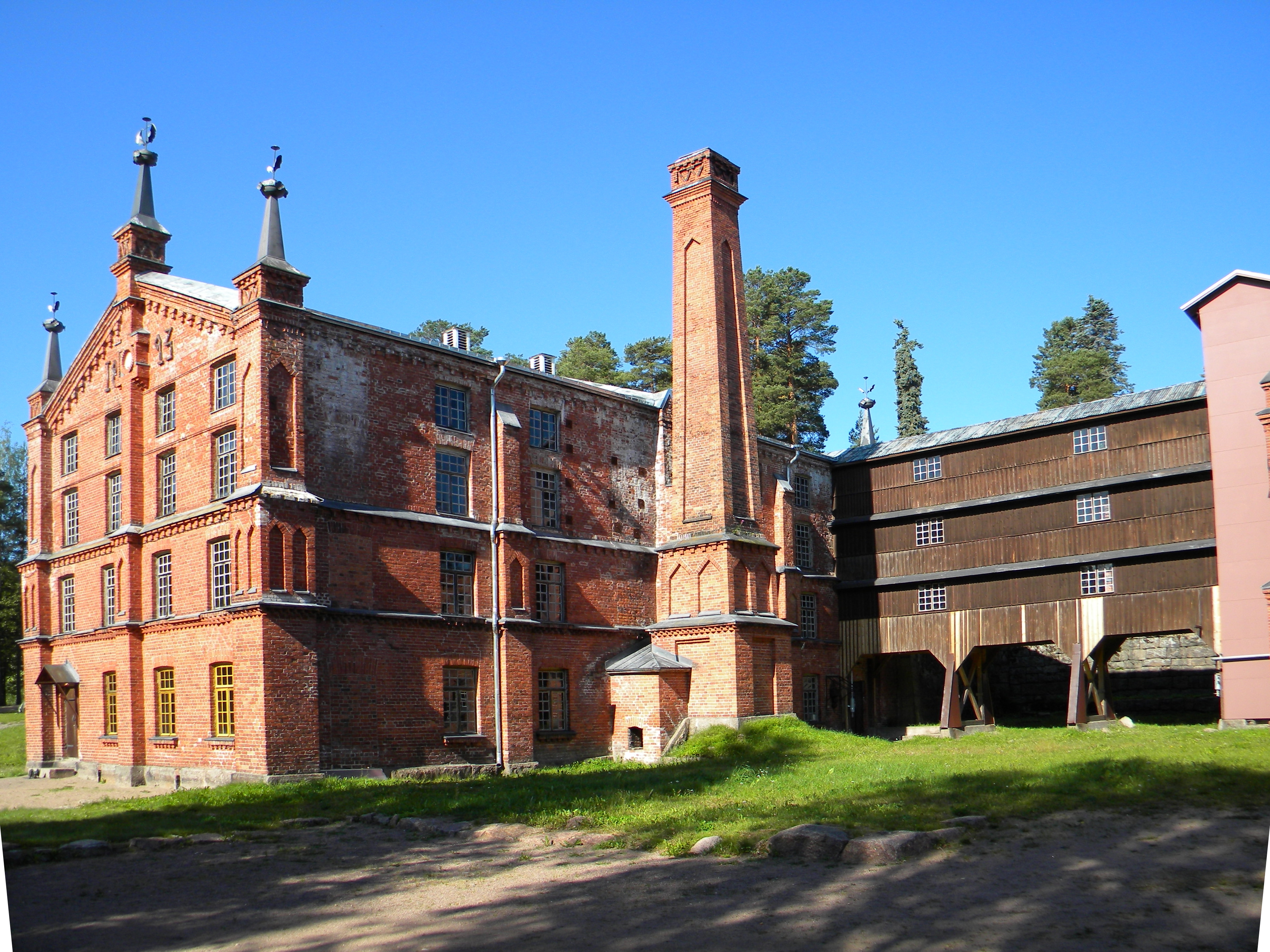 The Verla groundwood and board mill is a museum area and an UNESCO world heritage site.